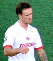 Martin Jiránek in action for FC Spartak Moscow